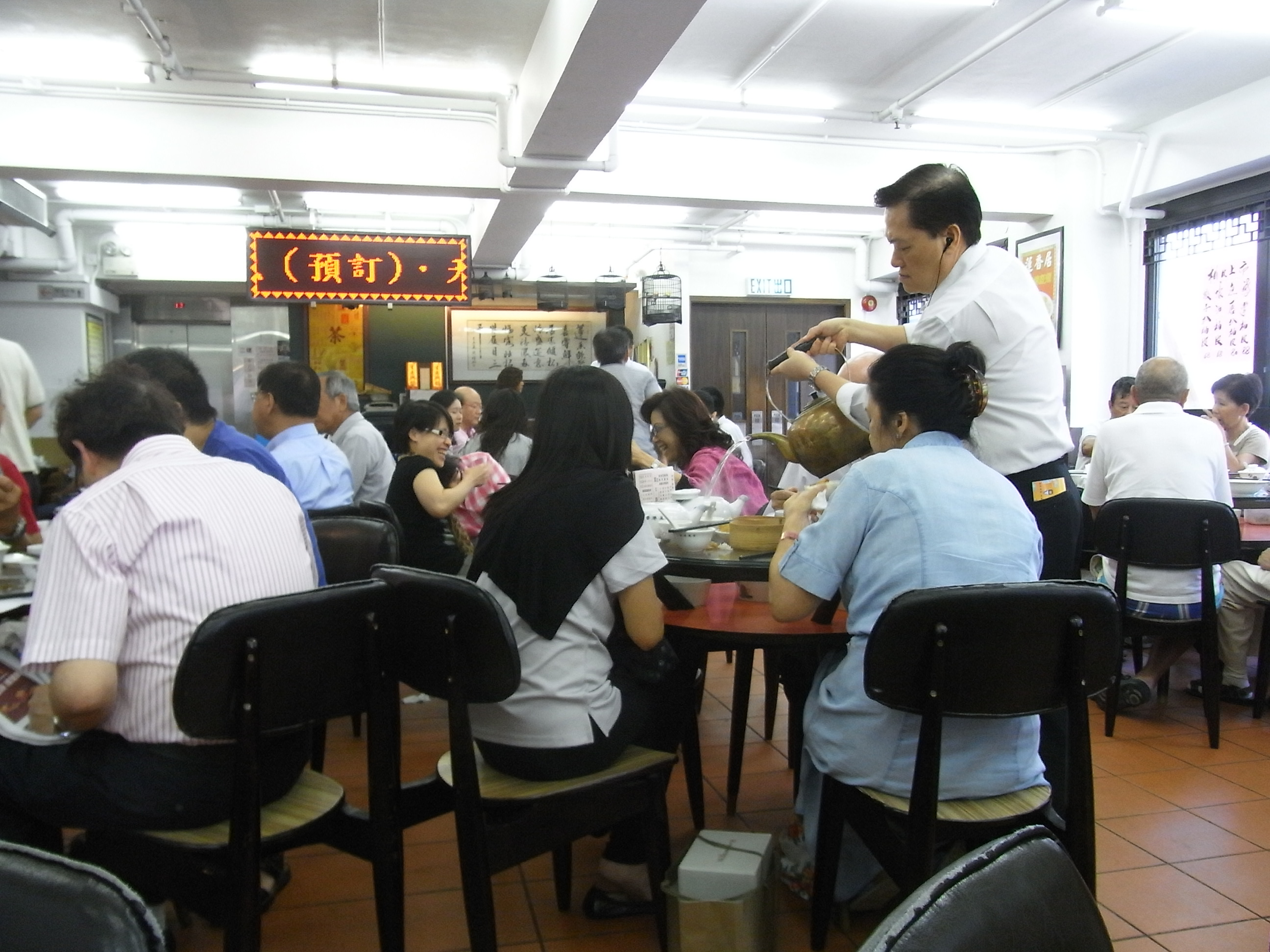 香港島西環 蓮香居, Lin Heung Kui, Western Centre, Sai Ying Pun, Hong Kong